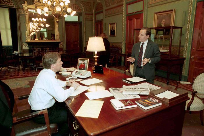 Vice President Quayle meets with his Chief of Staff, William Kristol.